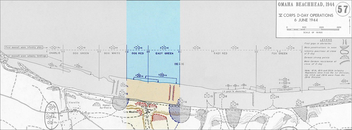 This is a treatment of the image Omaha_beachhead_6_June_1944.jpg already placed in Wikimedia Commons and used in the article Omaha Beach. I believe the source image is already GFDL licensed, and I generated this copy myself.